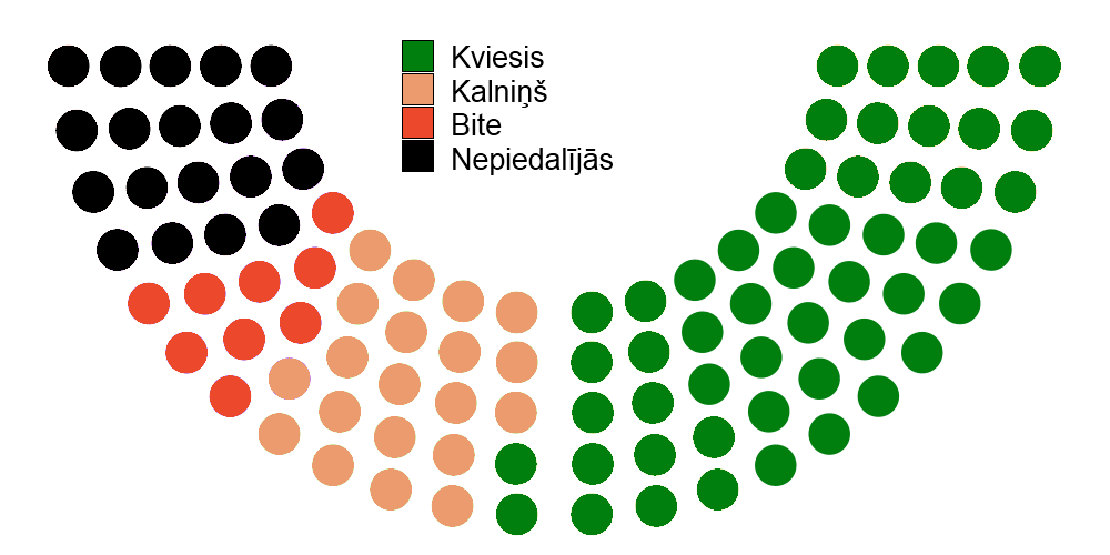 Graph showing the Saeima voting in Latvian presidential election, 1933.